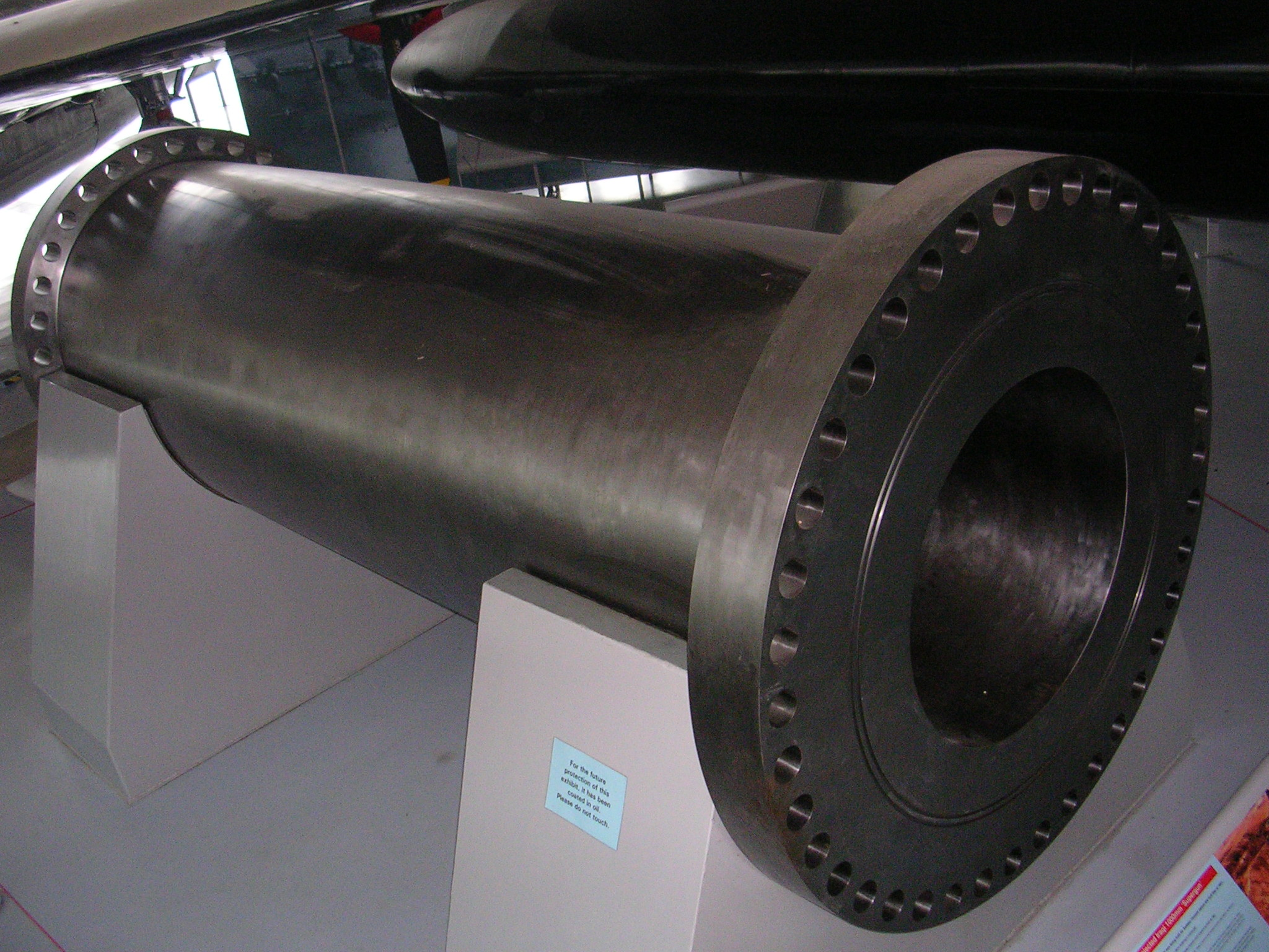 A section of the Iraqi supergun ("Project Babylon") displayed at Imperial War Museum Duxford.